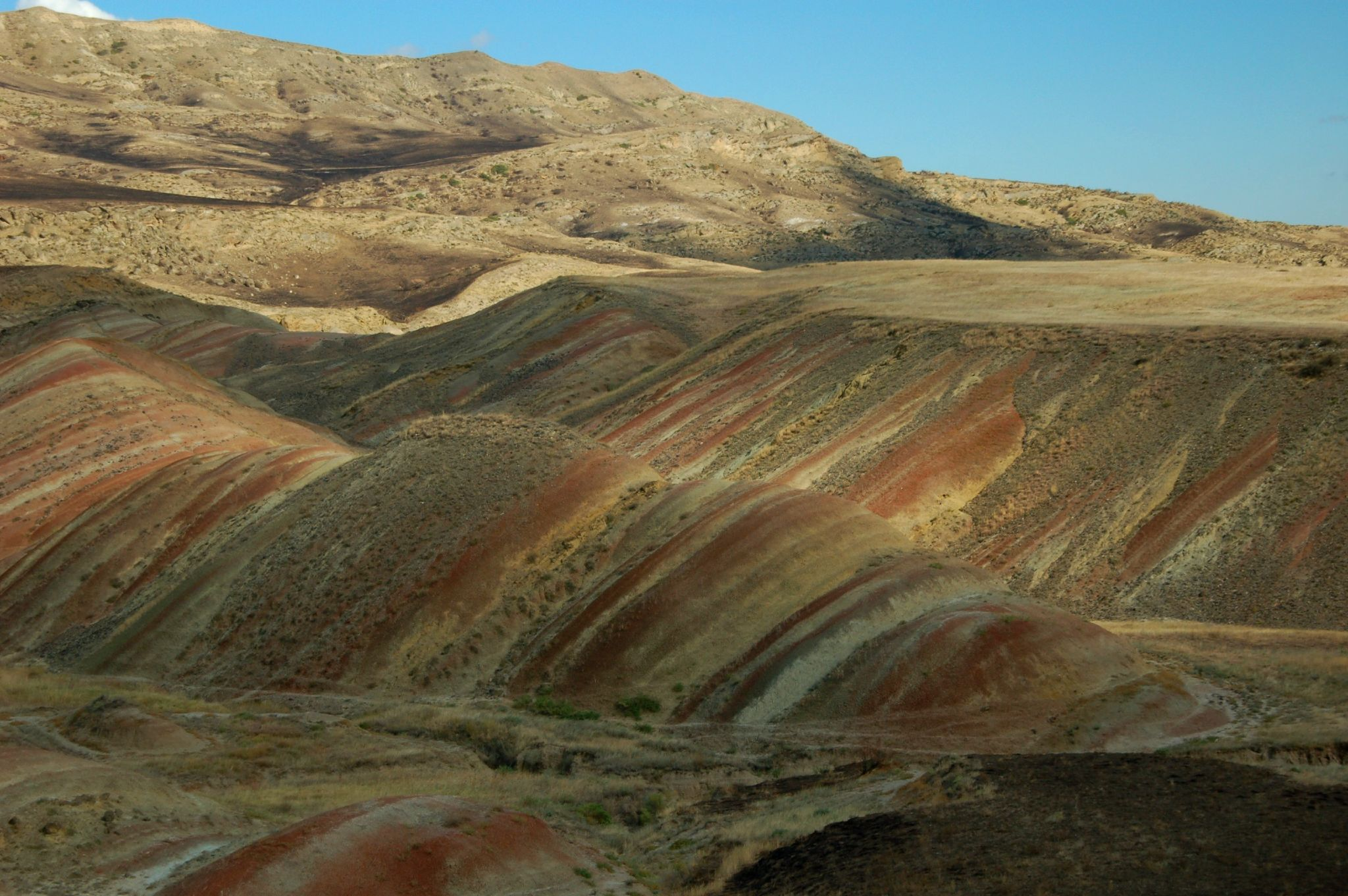 Udabno - literally means desert. There are rolls of clay, stones and little, if any vegetation.